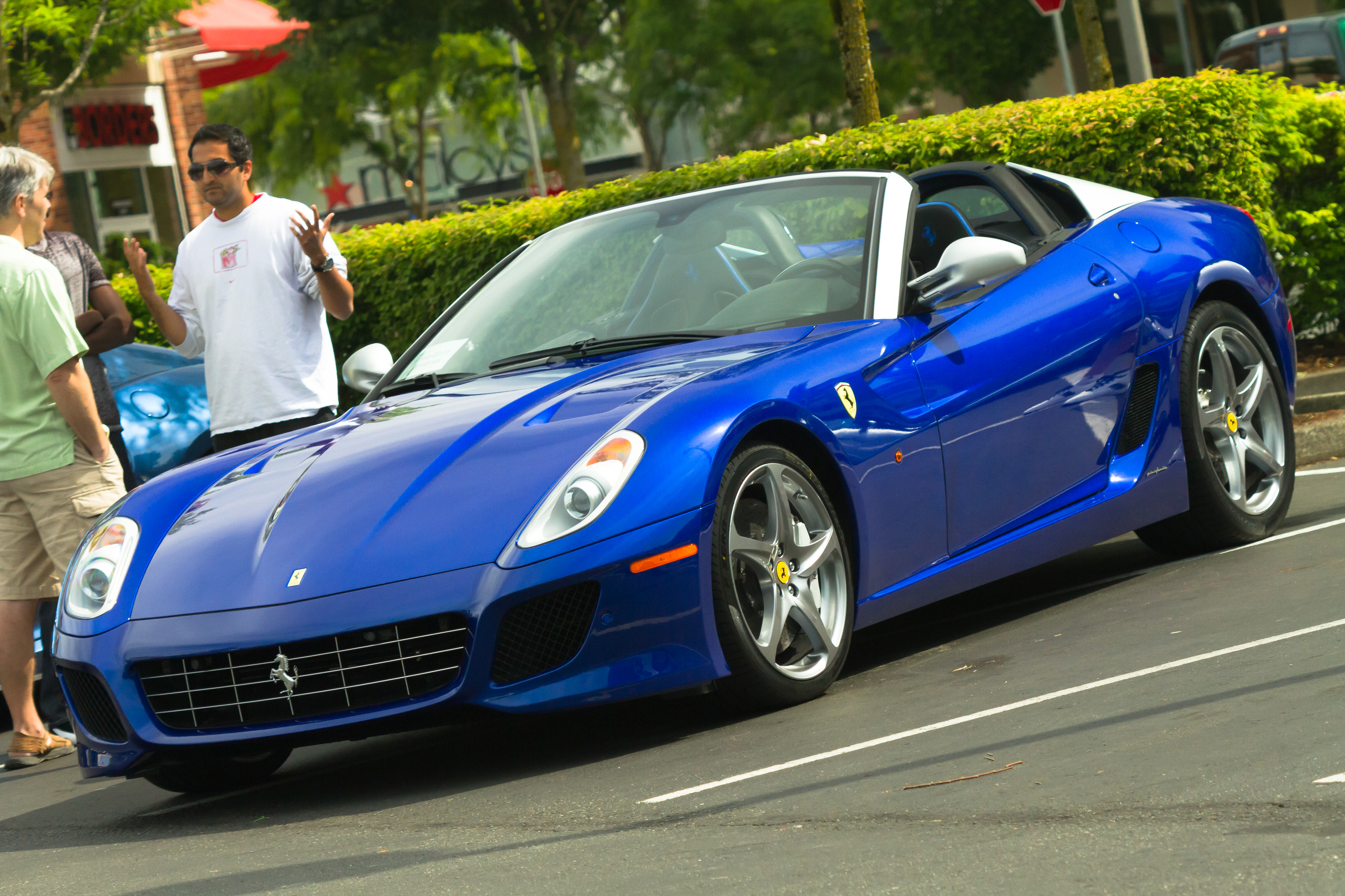 Ferrari SA Aperta that I photographed in Redmond, WA.